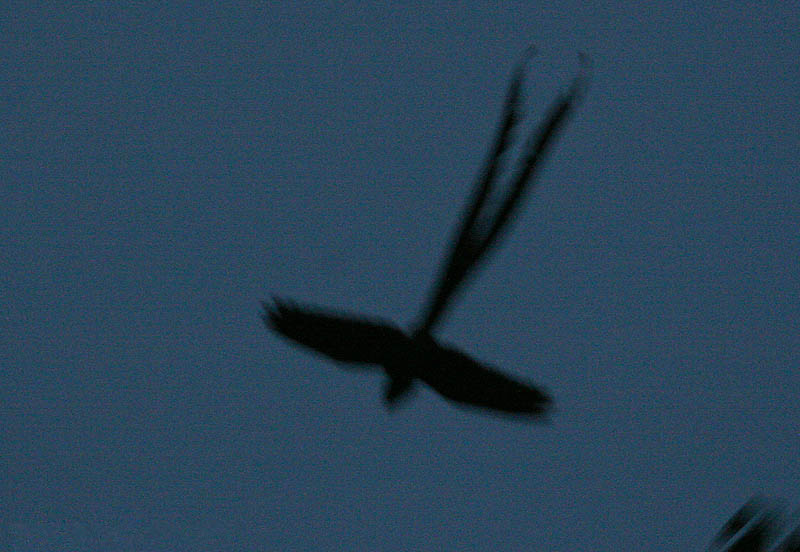 Lyre-tailed Nightjar (Uropsalis lyra). A male at Lower Tandayapa Valley, NW Ecuador.